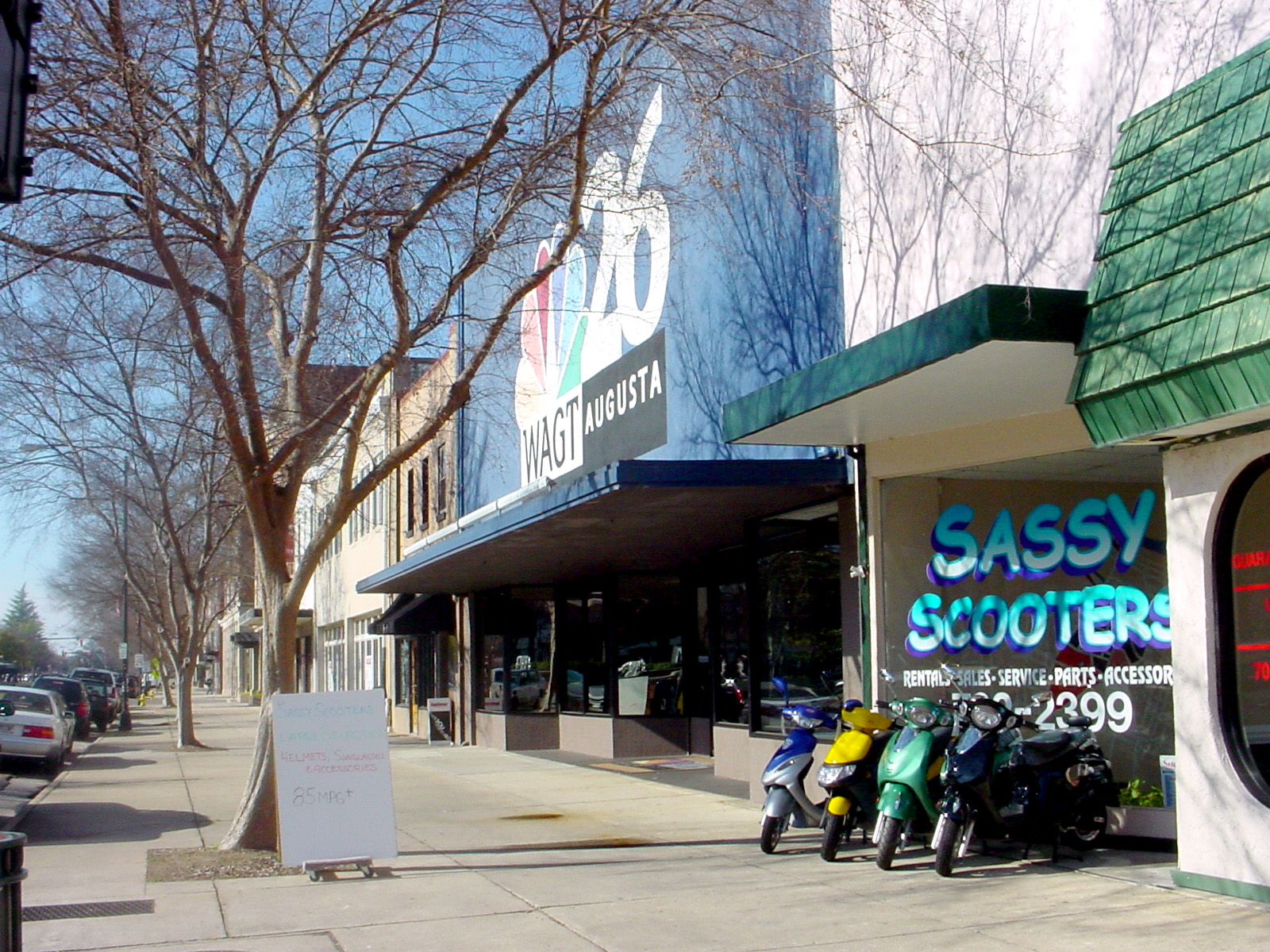 WAGT-TV studios, Broad Street, Augusta, Georgia, USA